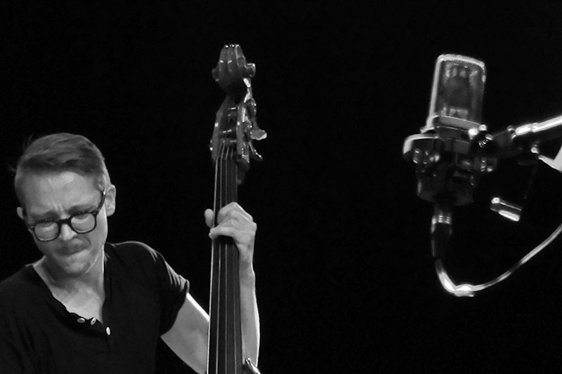 Eivind Opsvik performing with Nat Wooley Quintet at Aarhus Jazz festival 2016